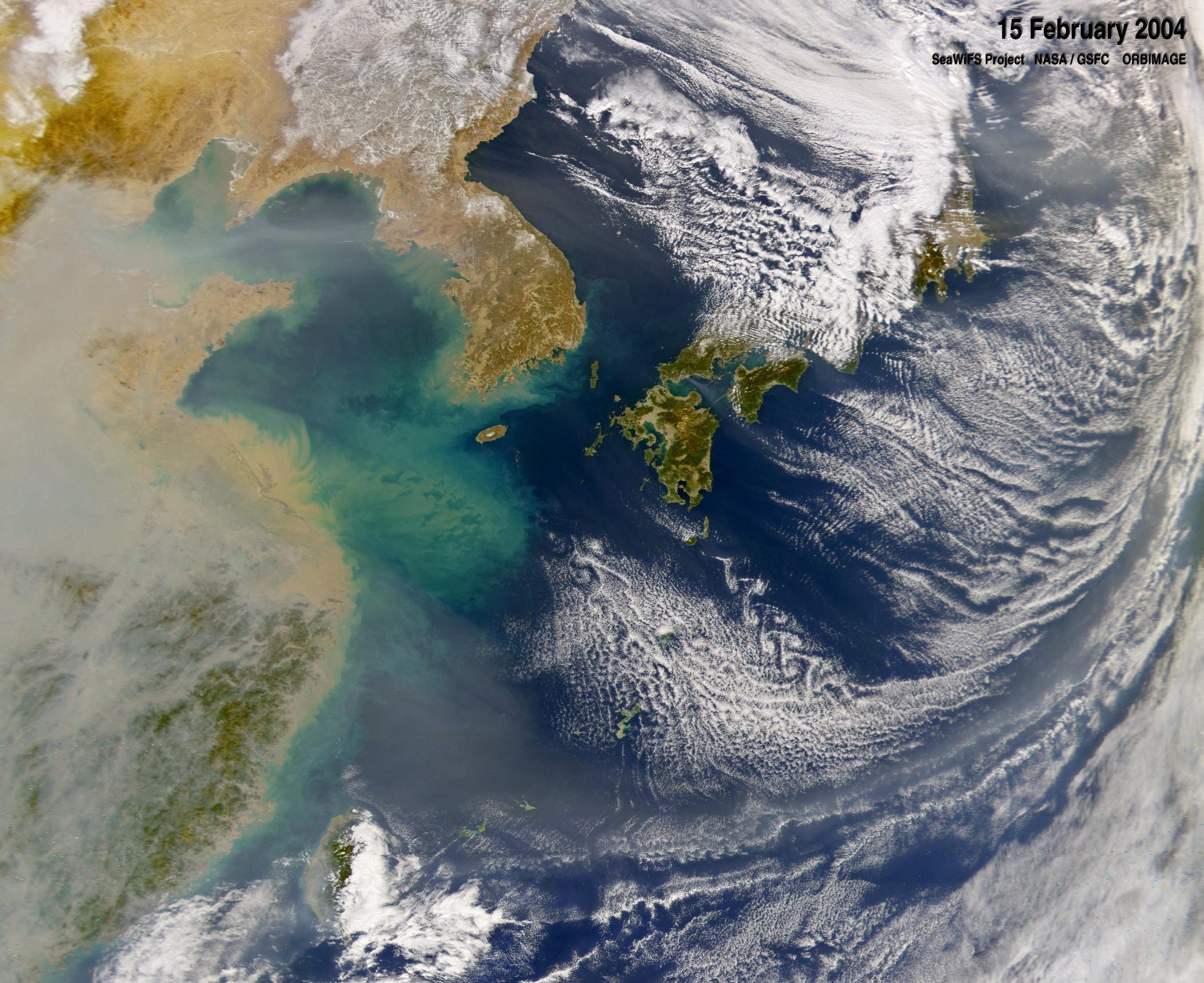 (original caption) The widespread pall of haze and pollution continued to hang over eastern China on February 15, 2004. Some of the pollution can be seen blowing over and just north of Taiwan and eastward far out to sea over the Pacific Ocean in this true-color image acquired by the Sea-viewing Wide Field-of-view Sensor (SeaWiFS). The strong winds blowing over eastern China have several other effects evident in this scene. Note the patterns of suspended sediments (light browns and turquoise) in the East China Sea, which are being churned up in the water column by the strong winds. These sediments are being washed out of the mouth of the Yangtze River and Hangzhou Bay in such abundance that they color the water a deep caramel along a long stretch of coastline, making it almost indistinguishable from land in some areas. Note also the cloud vortex streets extending southward from Korea and Japan, as well as the brownish dust and haze streaming eastward north of Tokyo.